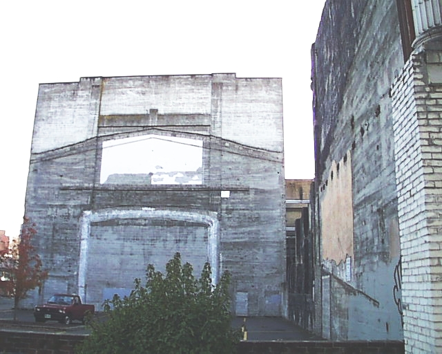 Site of the former Capitol Theater building in Salem, Oregon, United States, now a parking lot. The theater's stage house abutted the Elsinore Theatre's stage house and the bricked-in proscenium arch can still be seen.